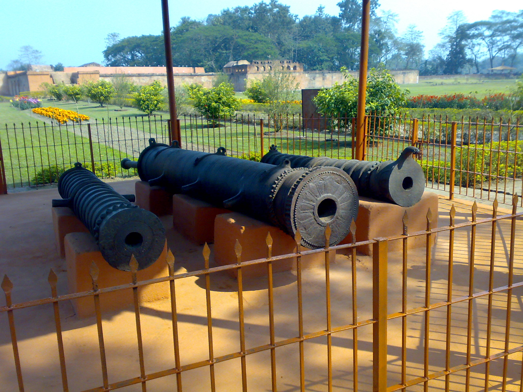 Cannons guarding the palace--Kareng Ghar or Talatal Ghar